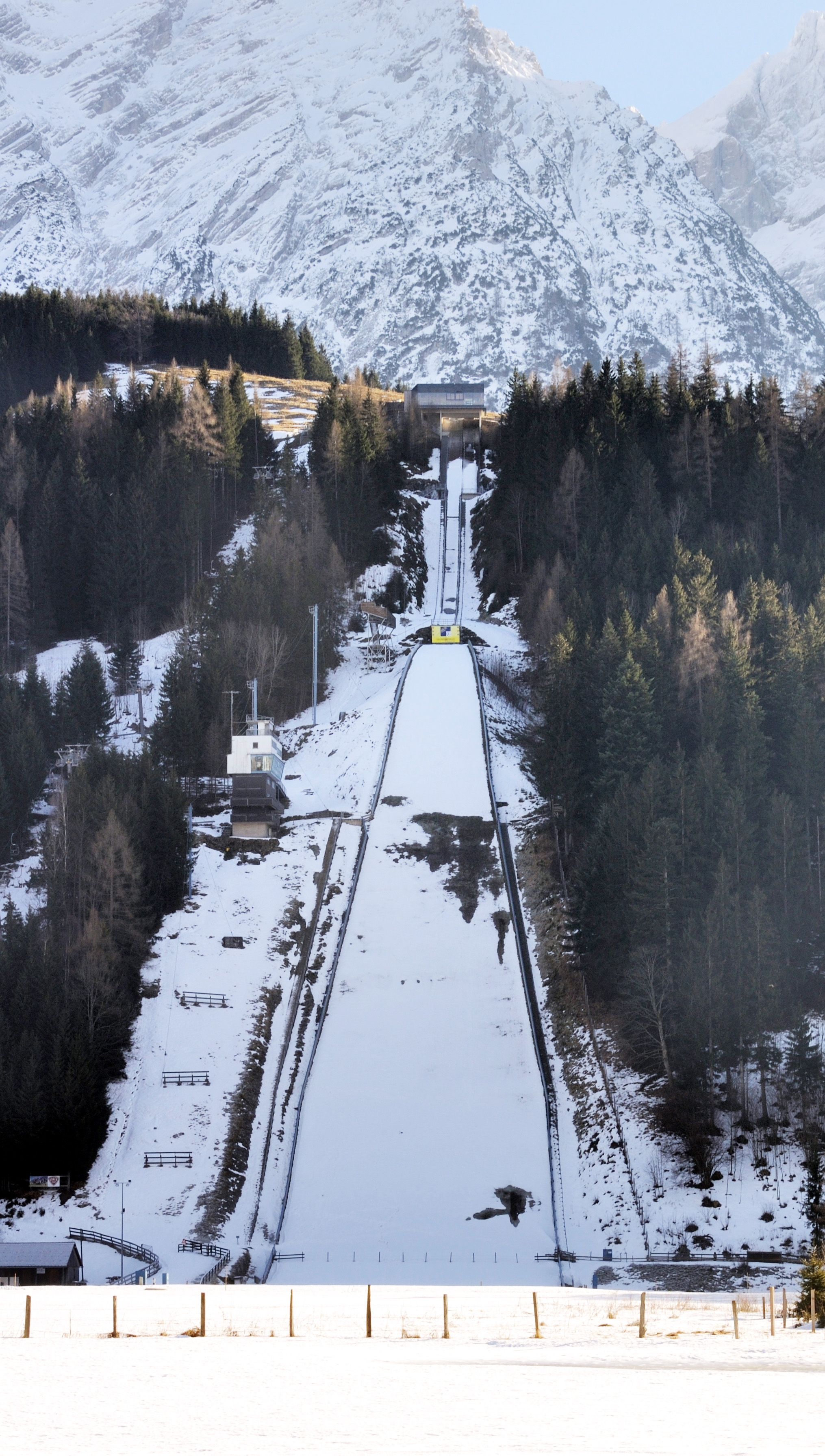 Ski jumping hill, Kulm